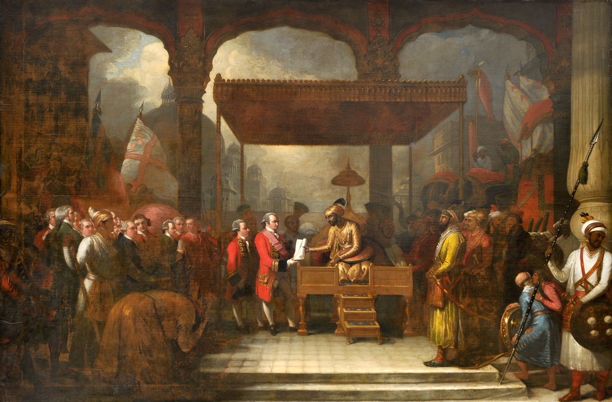 Shah 'Alam, Mughal Emperor (1759–1806), Conveying the Grant of the Diwani to Lord Clive, August 1765